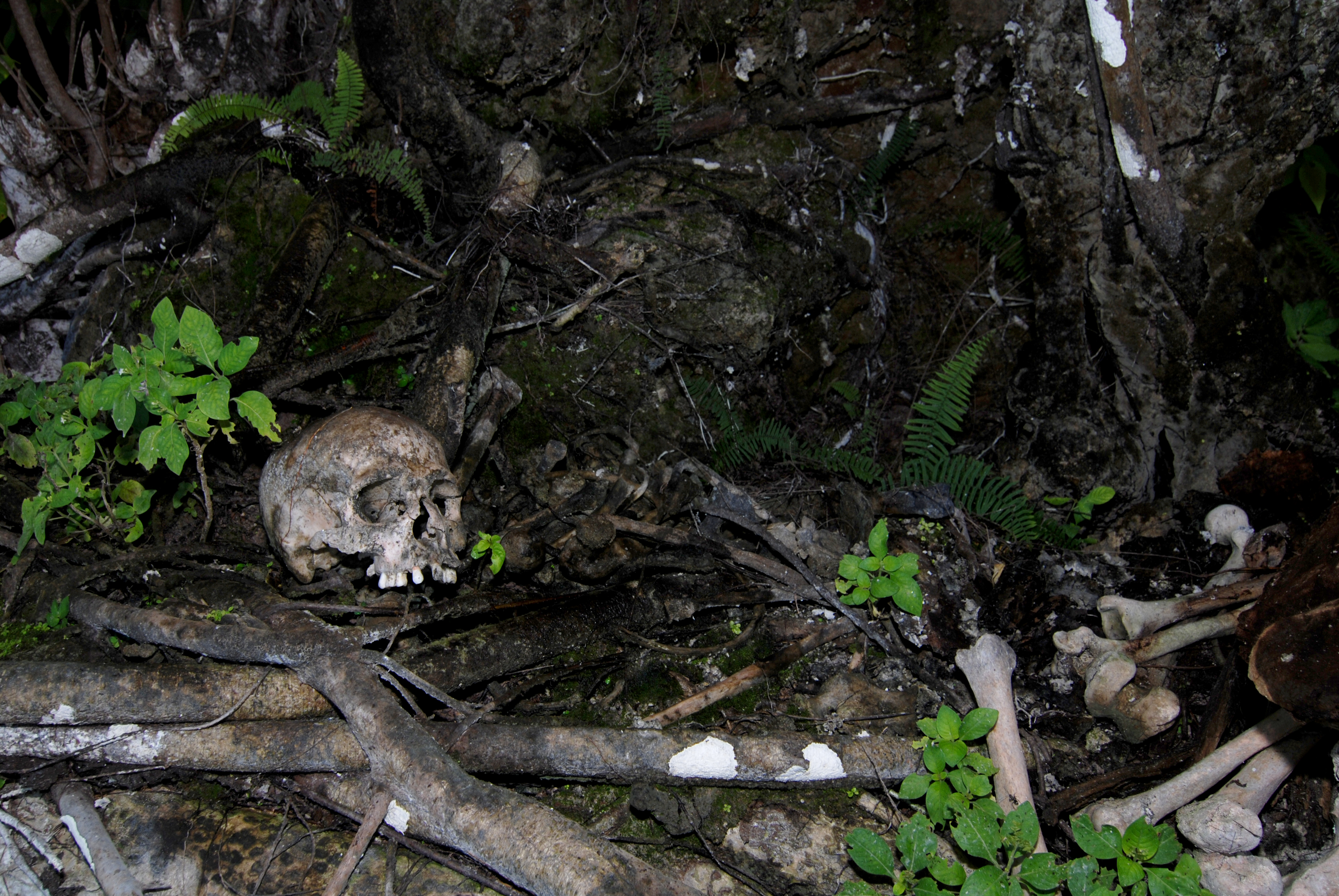 Skull and bones of Padwa old graves of biak tribes.